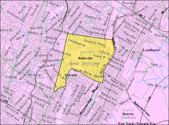 Census Bureau map of Belleville, New Jersey